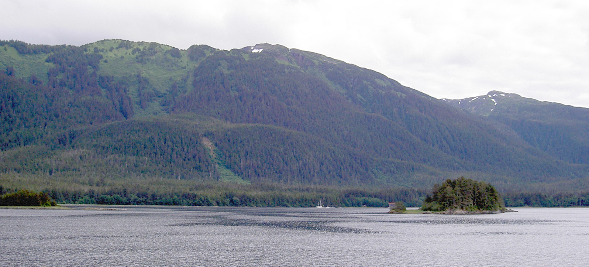 Funter Bay on the Mansfield Peninsula of Admiralty Island in southeastern Alaska, United States, looking south